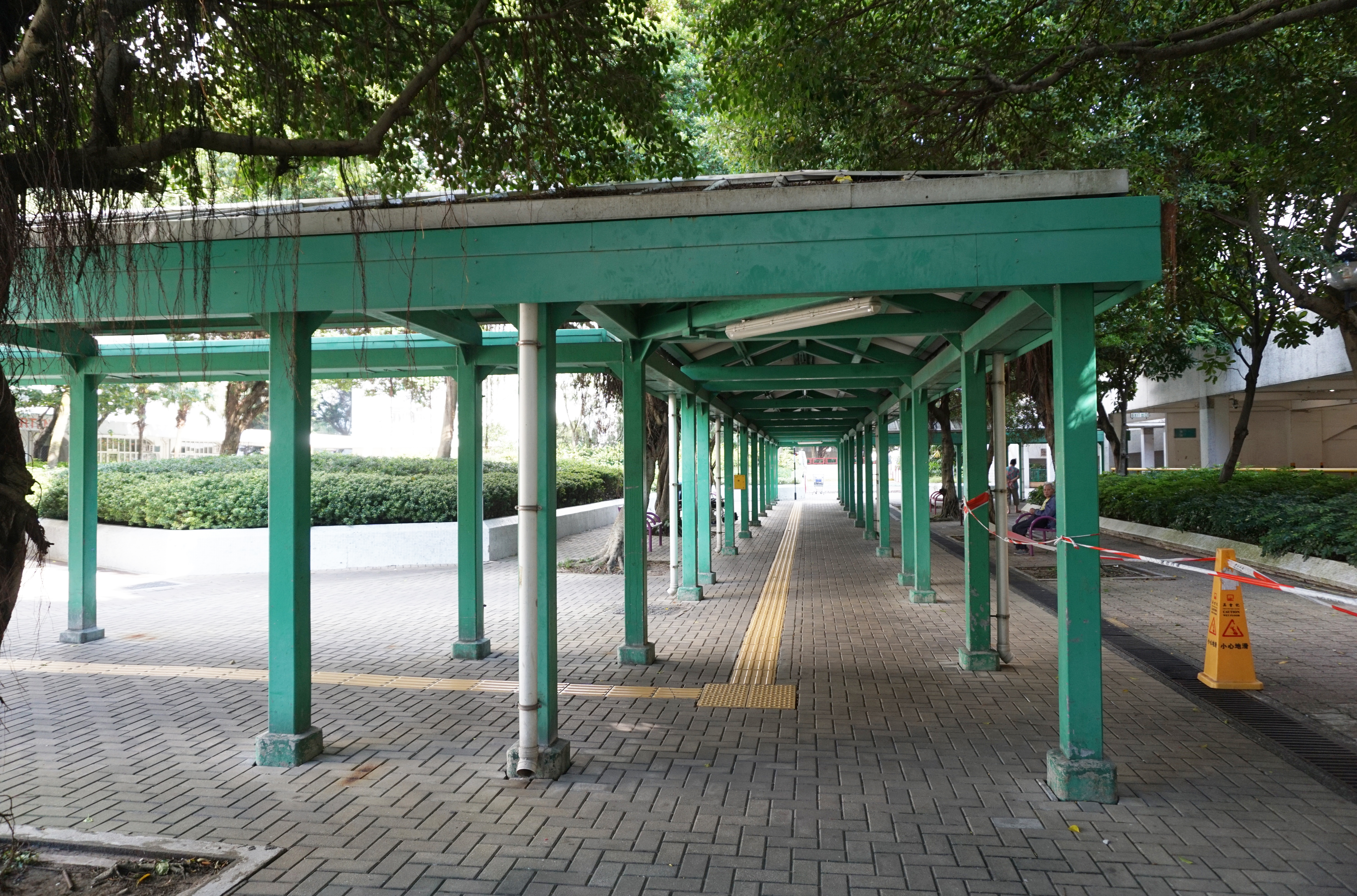 Po Lam Estate in Po Lam, Hong Kong.